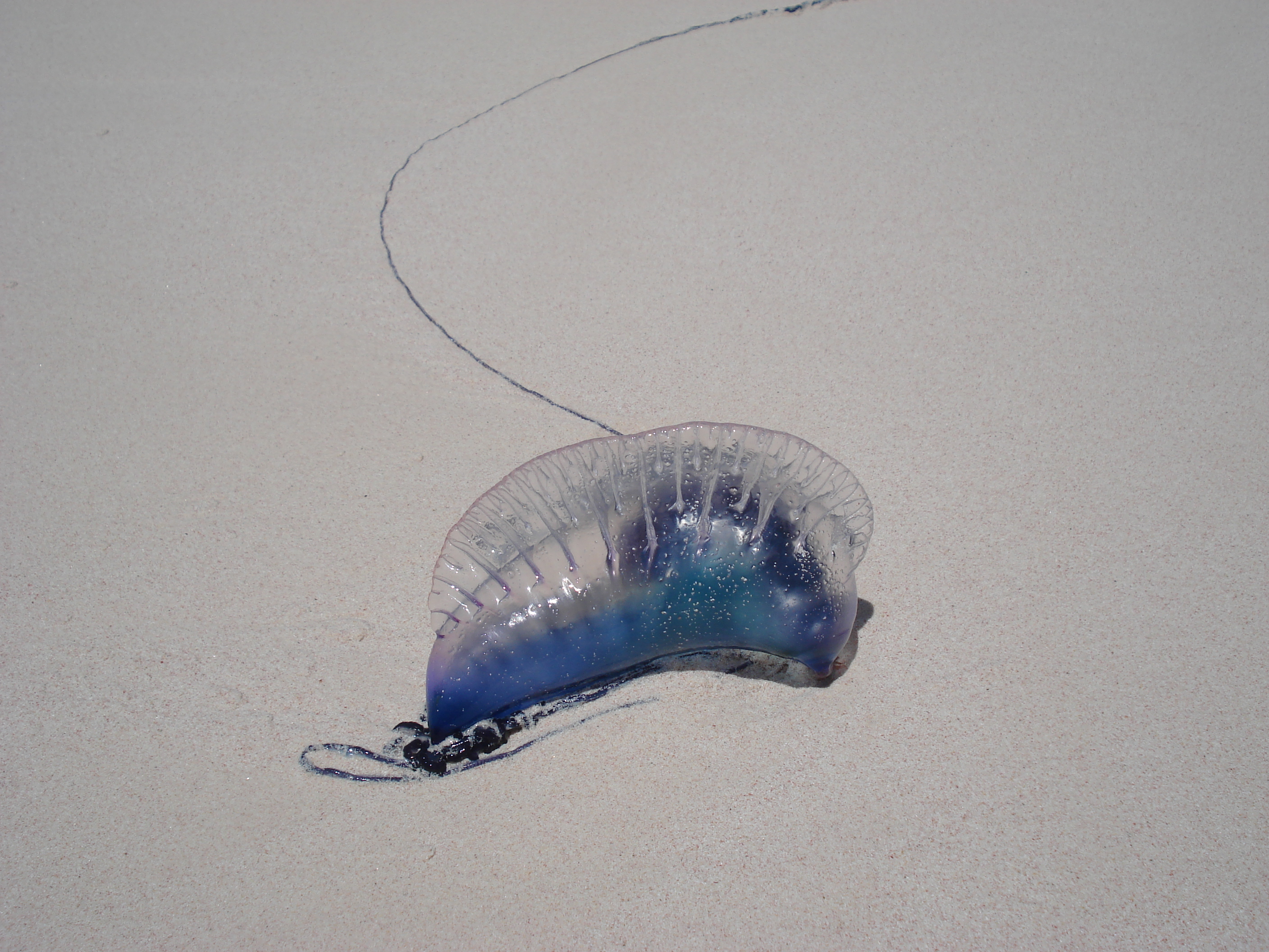 Portuguese Man O' War which washed ashore on Horseshoe Bay Beach, Bermuda